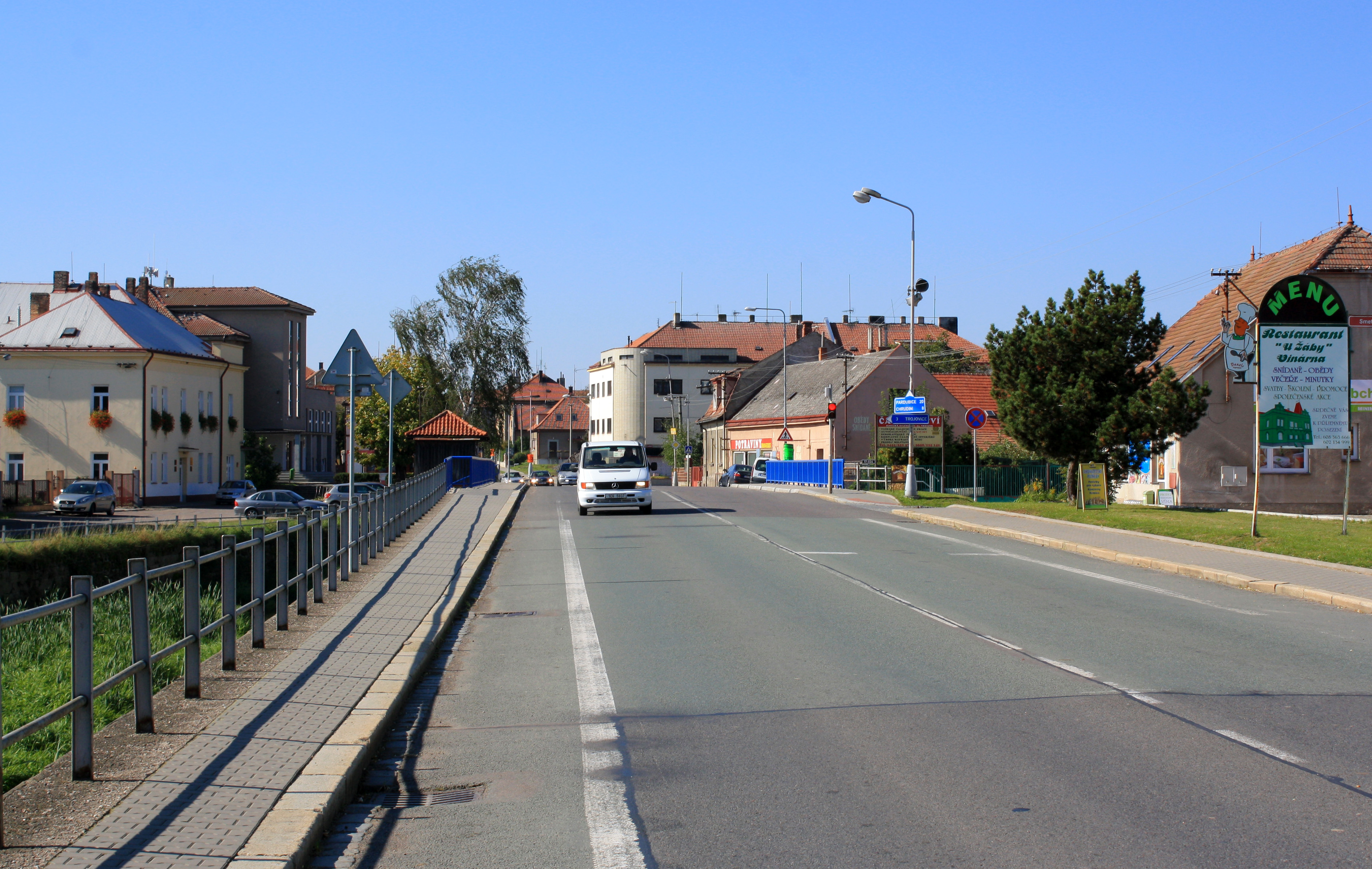 Smetanova street in Hrochův Týnec, Czech Republic